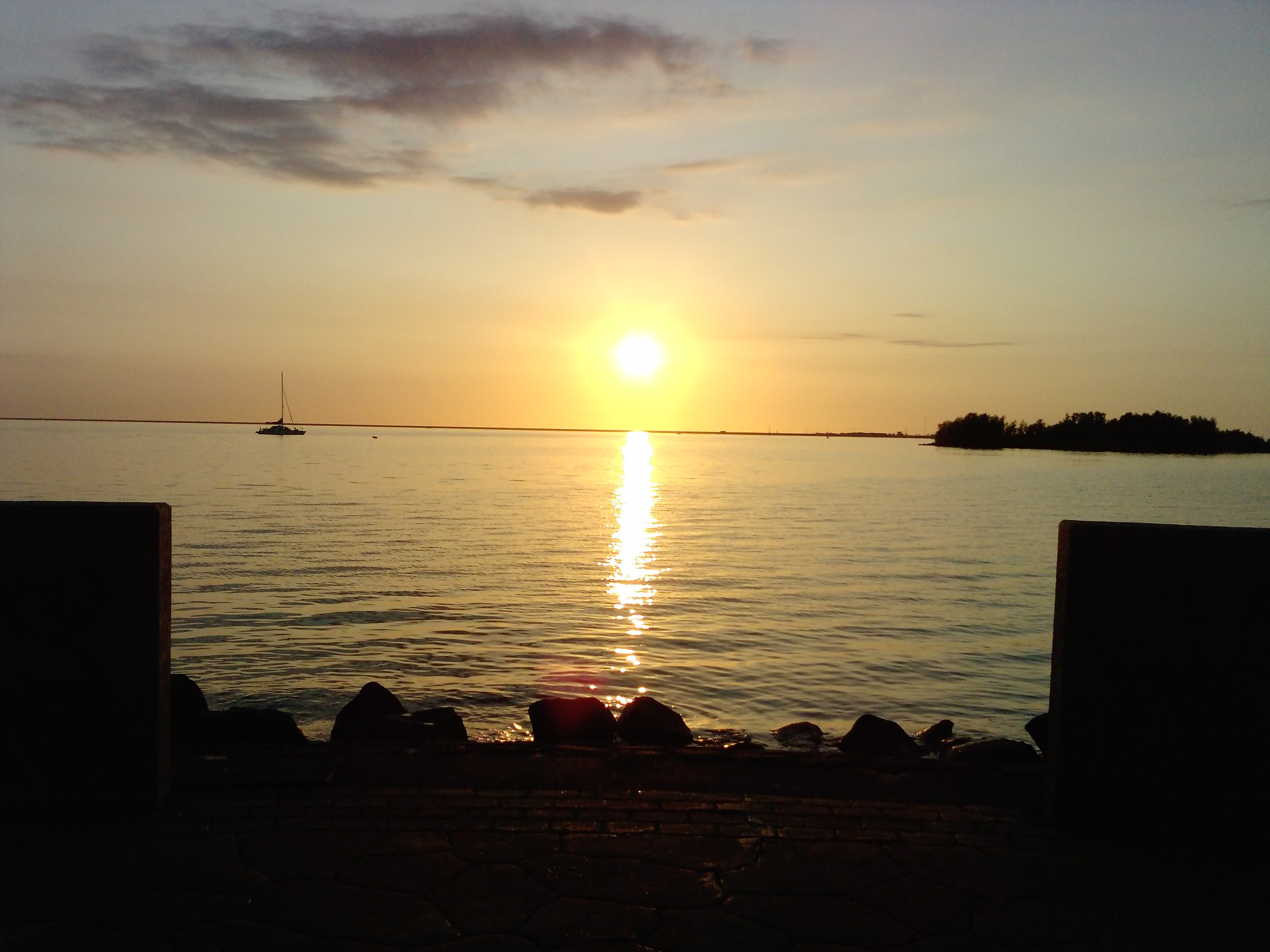 Sunset from Boulevard Makkum (Friesland, The Netherlands) with view on the Afsluitdijk